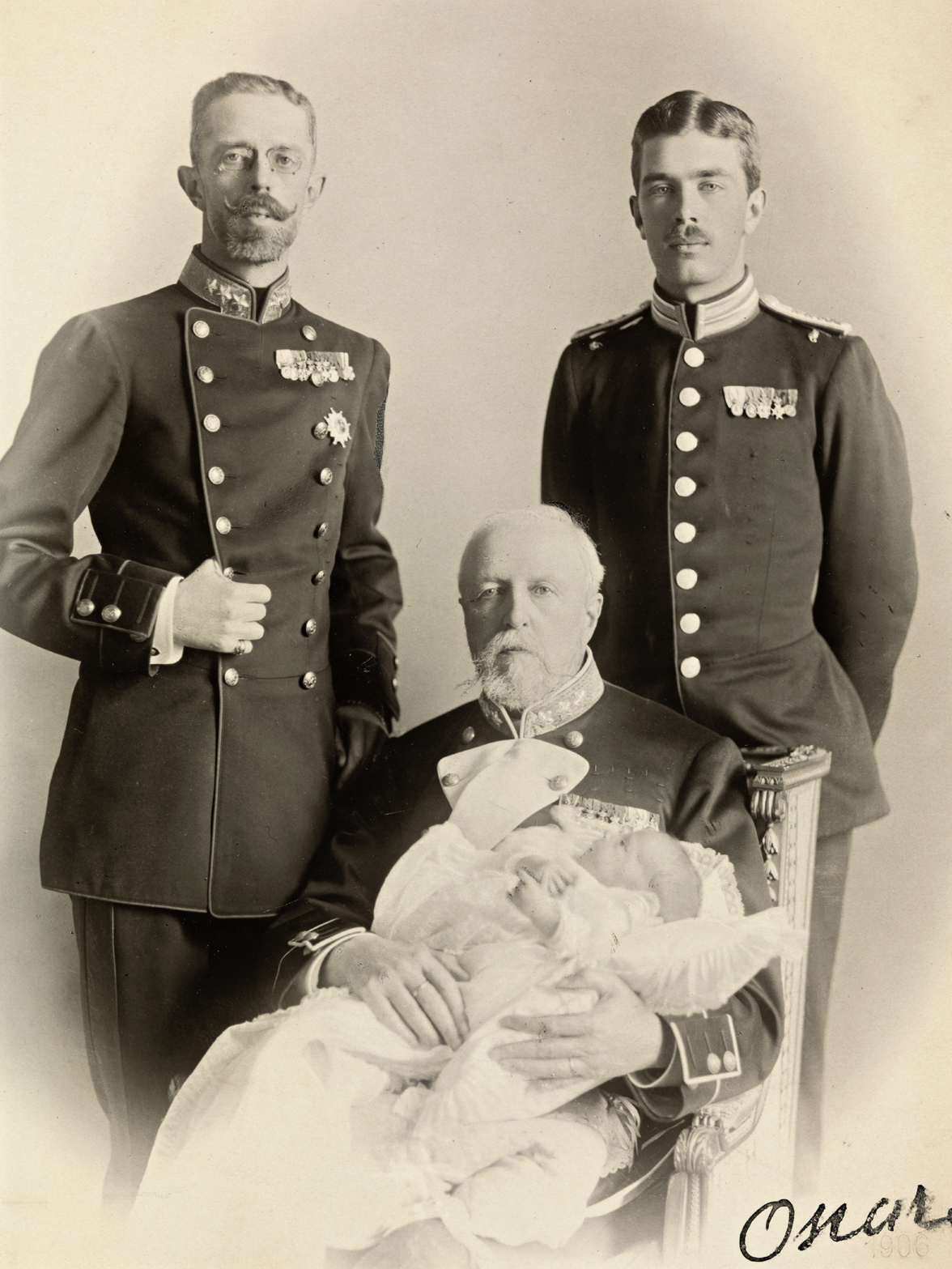 Motiv / Motif: Kabinettkort / Cabinet card. Dato / Date: 1906 Fotograf / Photographer: Atelier Florman (Stockholm) Sted / Place: Sverige, Stockholm Eier / Owner Institution: Nasjonalbiblioteket / National Library of Norway Lenke / Link: Bildesignatur / Image Number: blds_04758